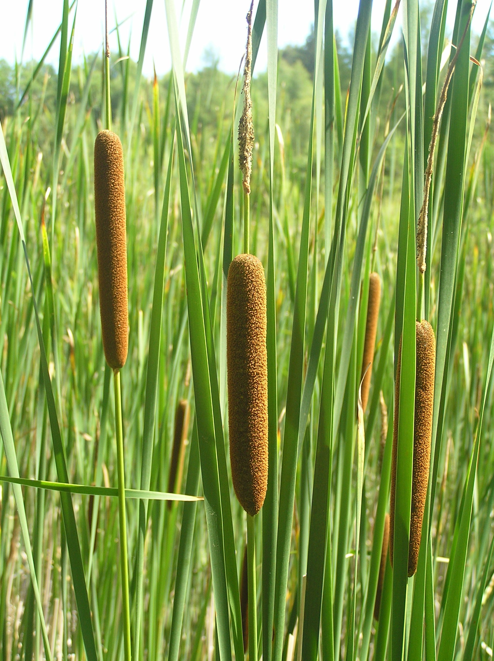 Typha angustifolia, from Bílé Karpaty Mountains, Rasová near Starý Hrozenkov, Czech Republic